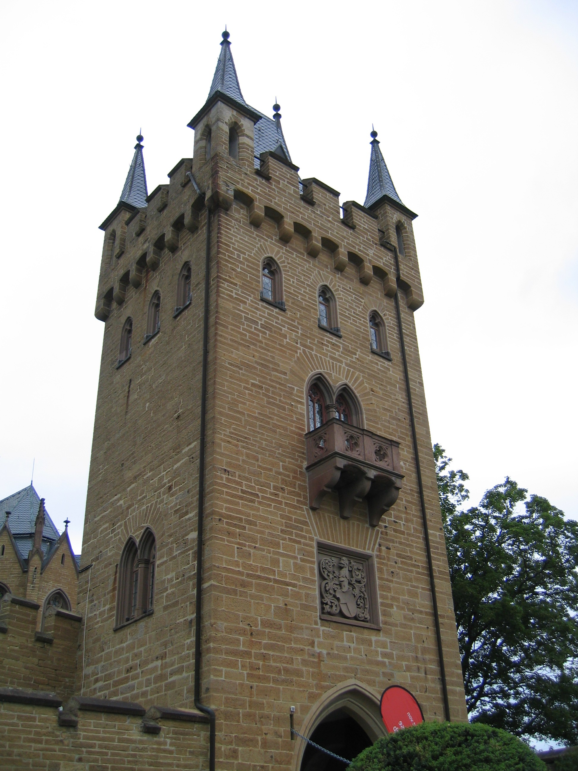 Hohenzollern Castle, gate tower (facing east)